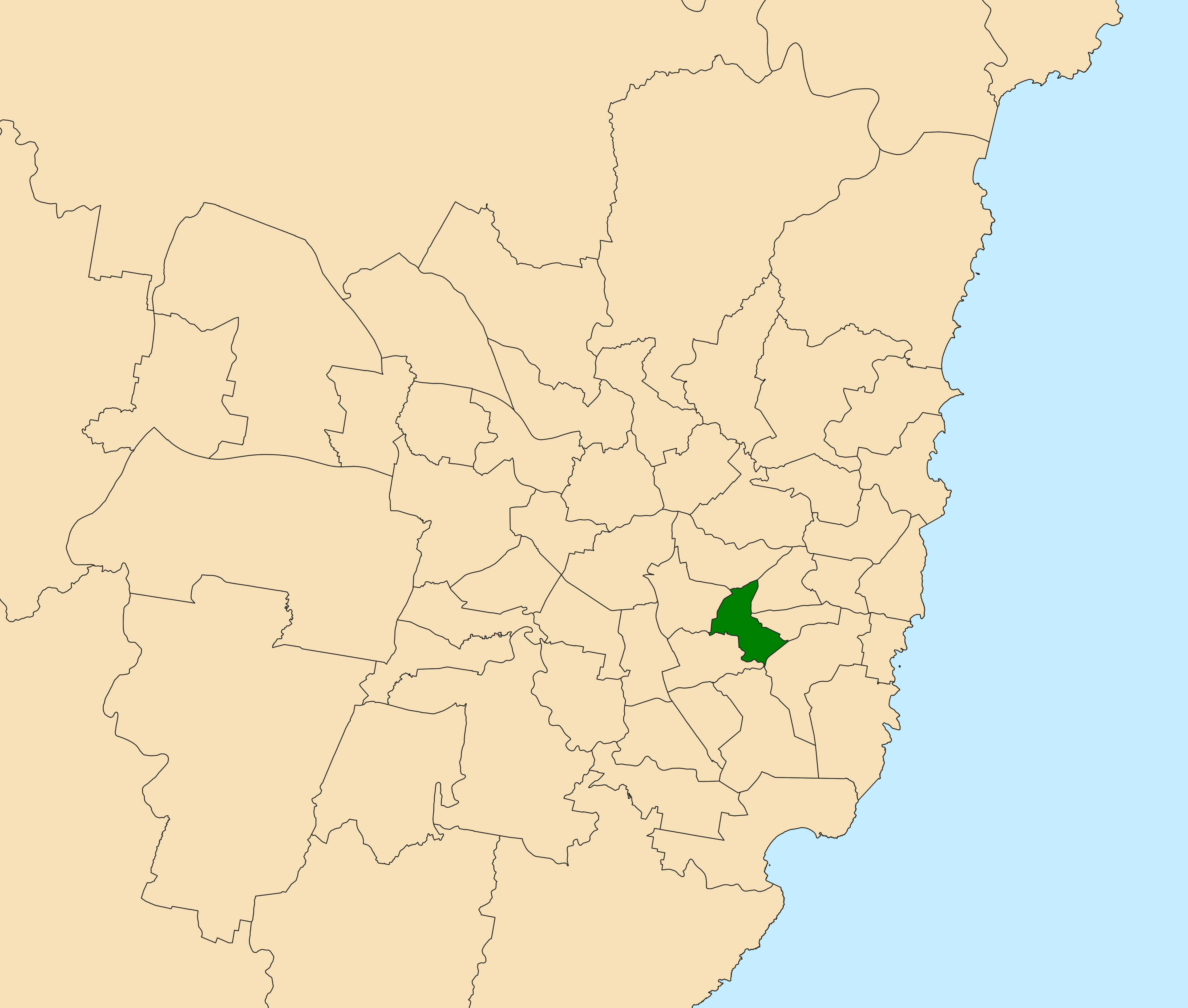 Location of the state electoral district of Summer Hill (dark green) in the metropolitan Sydney area as of the 2019 New South Wales state election. Incorporates or developed using Administrative Boundaries ©PSMA Australia Limited licensed by the Commonwealth of Australia under Creative Commons Attribution 4.0 International licence (CC BY 4.0).